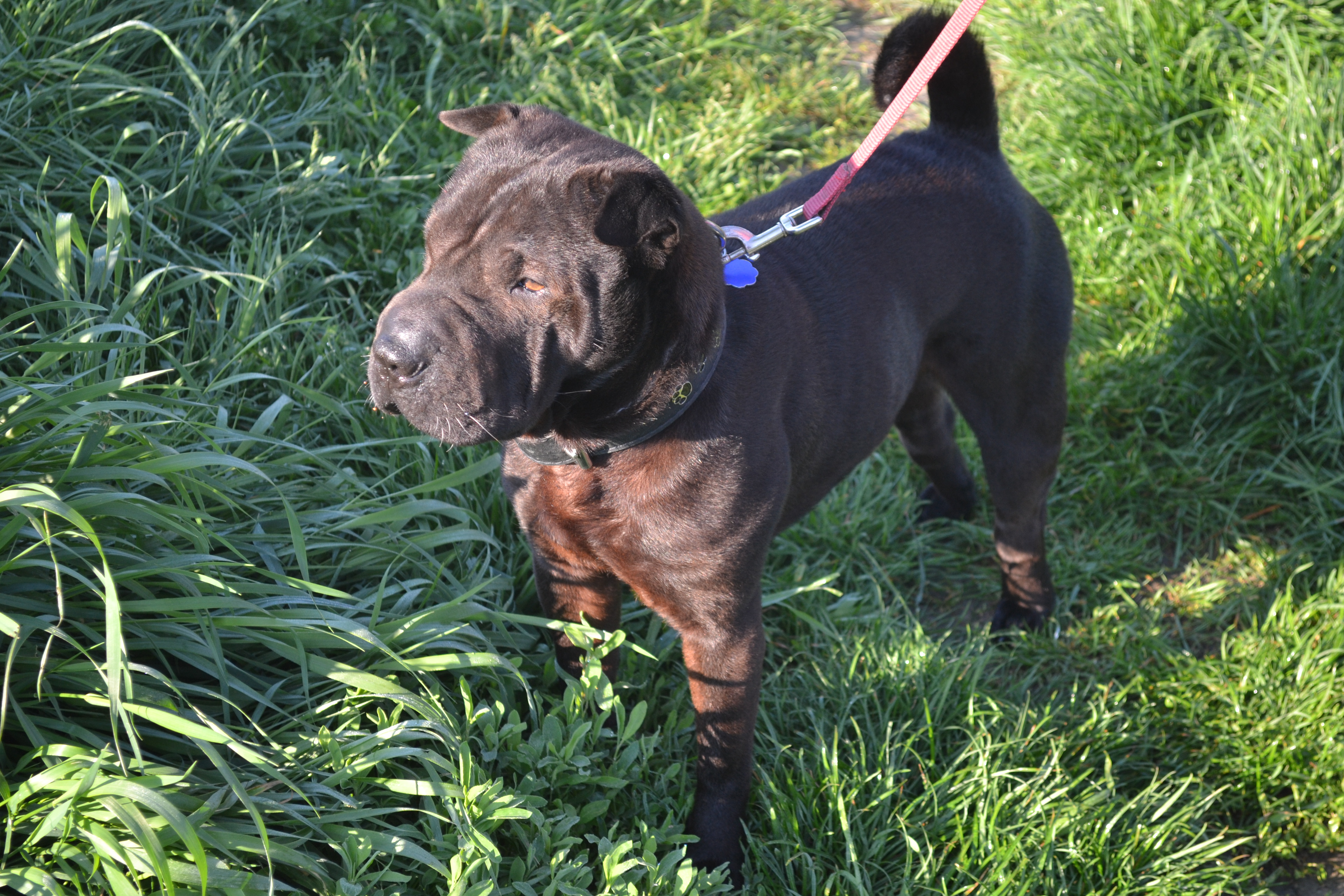 Shar-Pei in Lučenec (Slovakia)